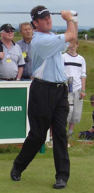 Todd Hamilton, professional golfer, at the 2005 Open Championship.